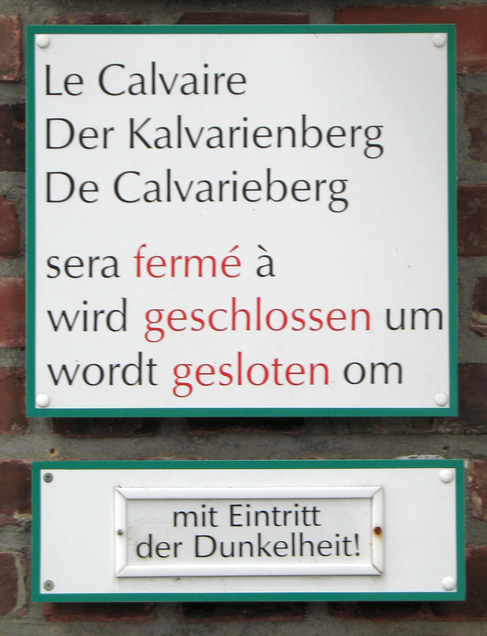 Multilanguage sign at the entry to the Stations of the Cross in Moresnet, Belgium